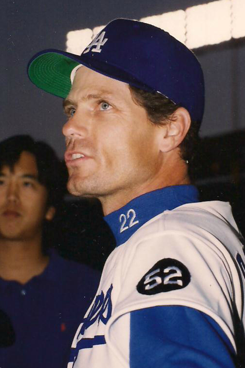 Brett Butler, Centerfielder, Los Angeles Dodgers, April 14, 1993